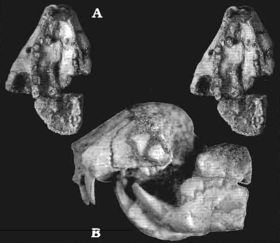 Kryptobaatar dashzevegi Kielan-Jaworowska, 1970. PAL MgM-Y9, 'narrow snout'. Upper Cretaceous, Djadokhta Formation, Bayn Dzak, Gobi Desert, Mongolia. A. Stereo-photograph in ventral view. B. Left lateral view of the same, before separation of the dentaries. x 2.2.